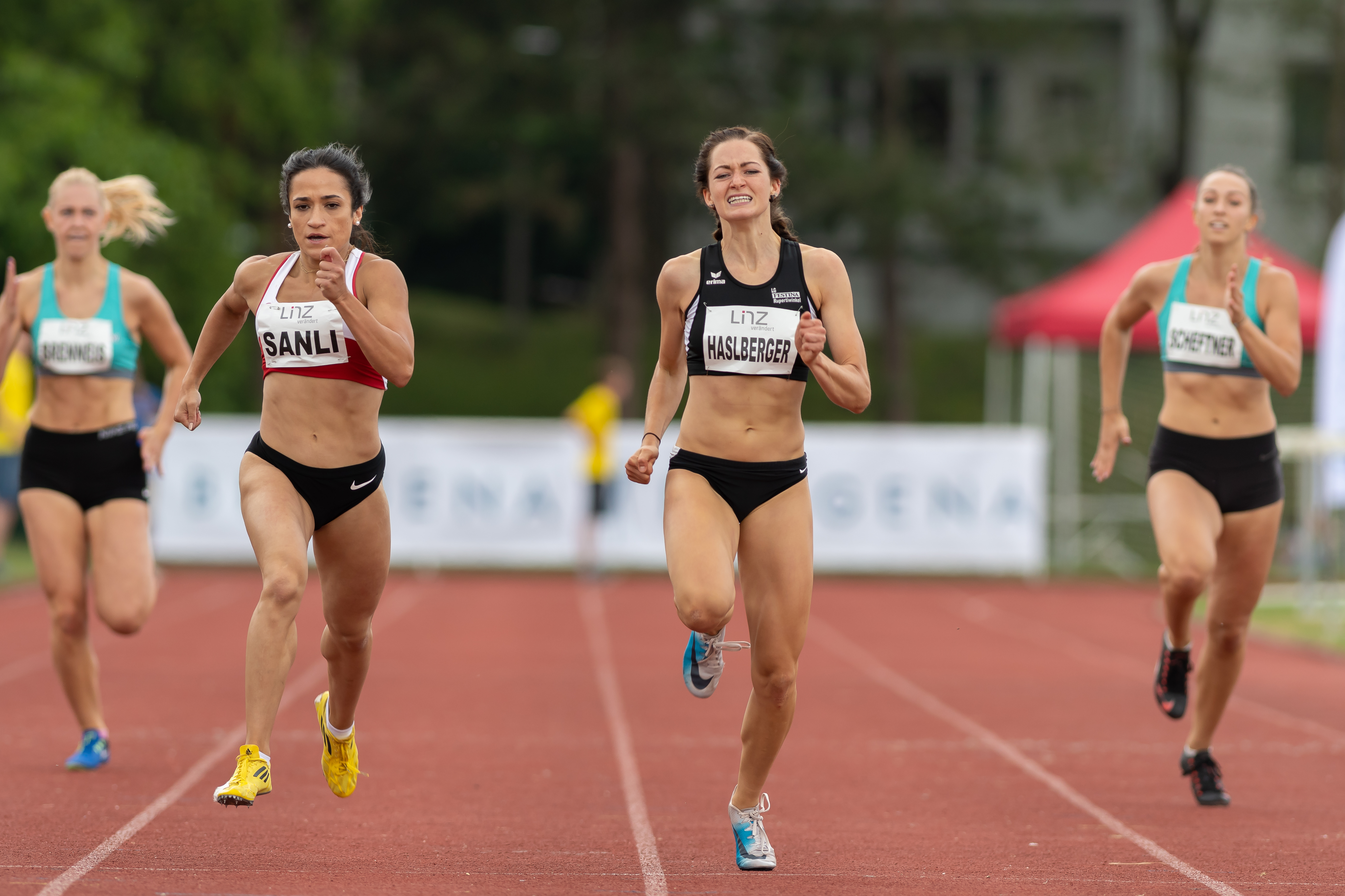 Leichtathletik Gala Linz 2018; women´s 200 m sprint